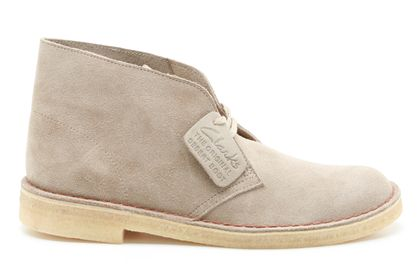 Picture of Clarks Desert Boot in Sand Suede. Uploaded May 2014.